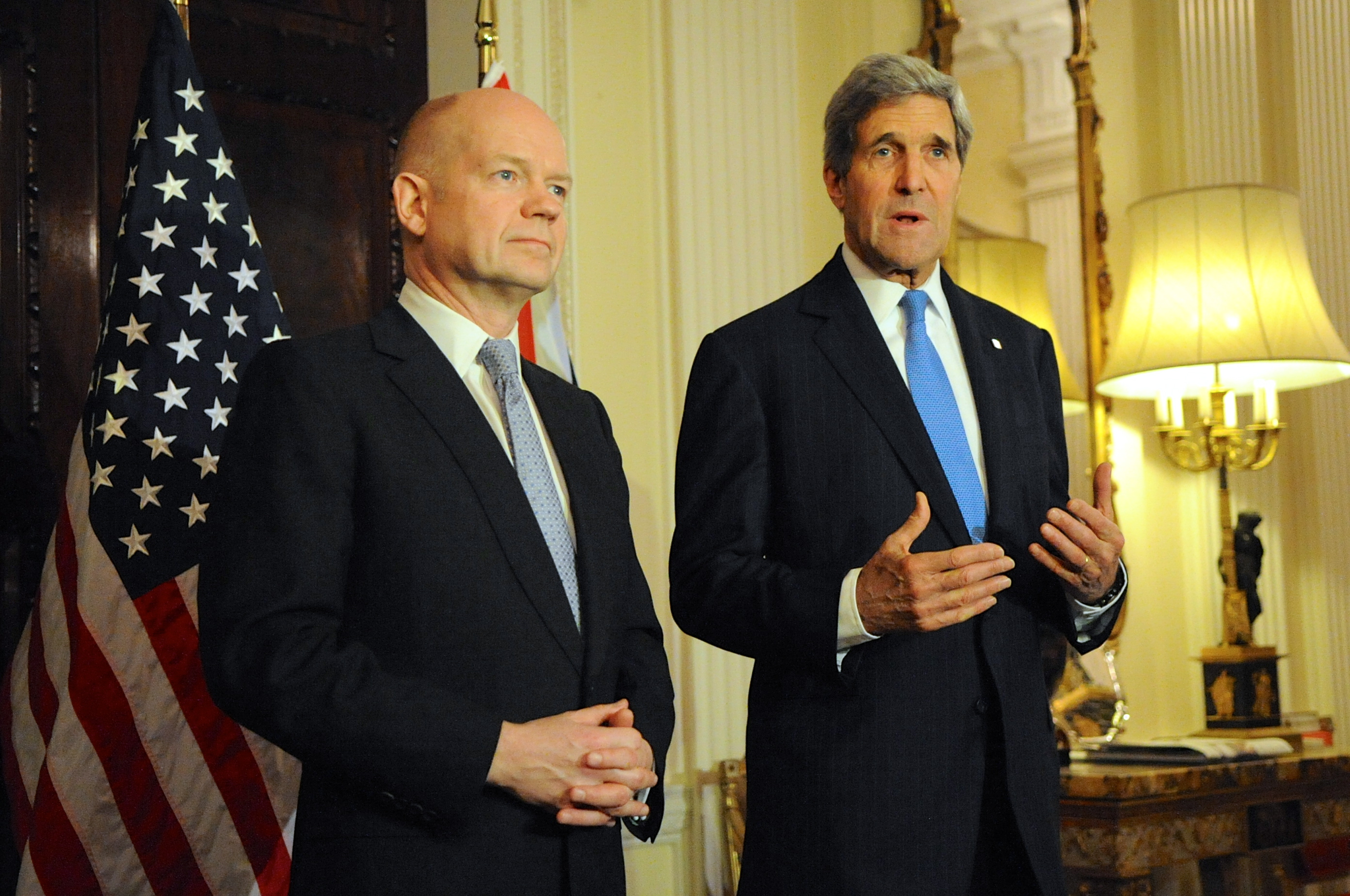 U.S. Secretary of State John Kerry and U.K. Foreign Secretary William Hague speak to reporters following their bilateral meeting in London, United Kingdom, November 24, 2013. [State Department photo/ Public Domain]